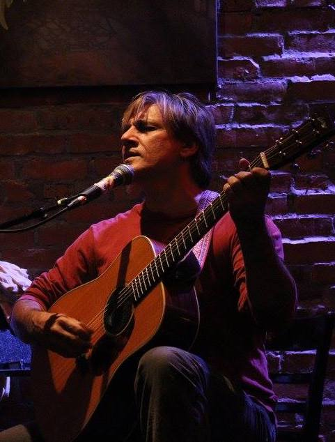 Freddi Shehadi playing a live acoustic performance